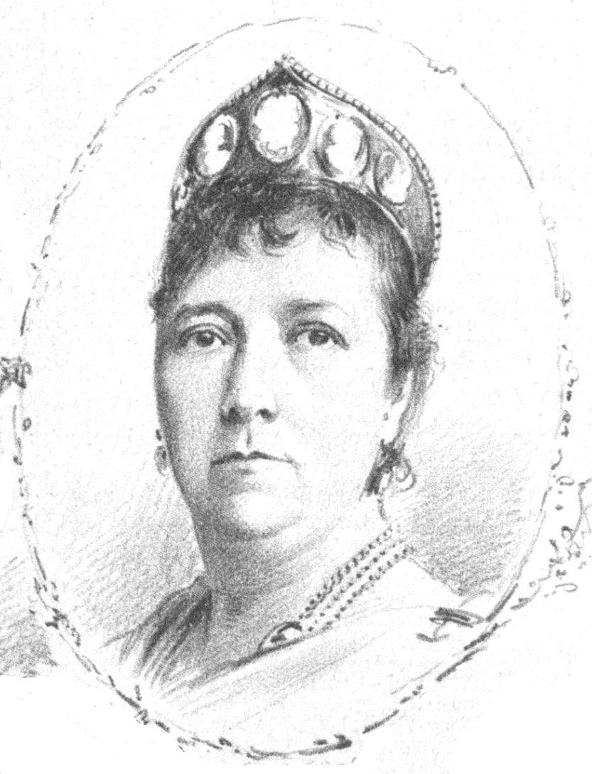 Portrait of Theodora von Fiedler-Wurzbach (1847-1894), Austrian actress, member of a German Theater in Prague.